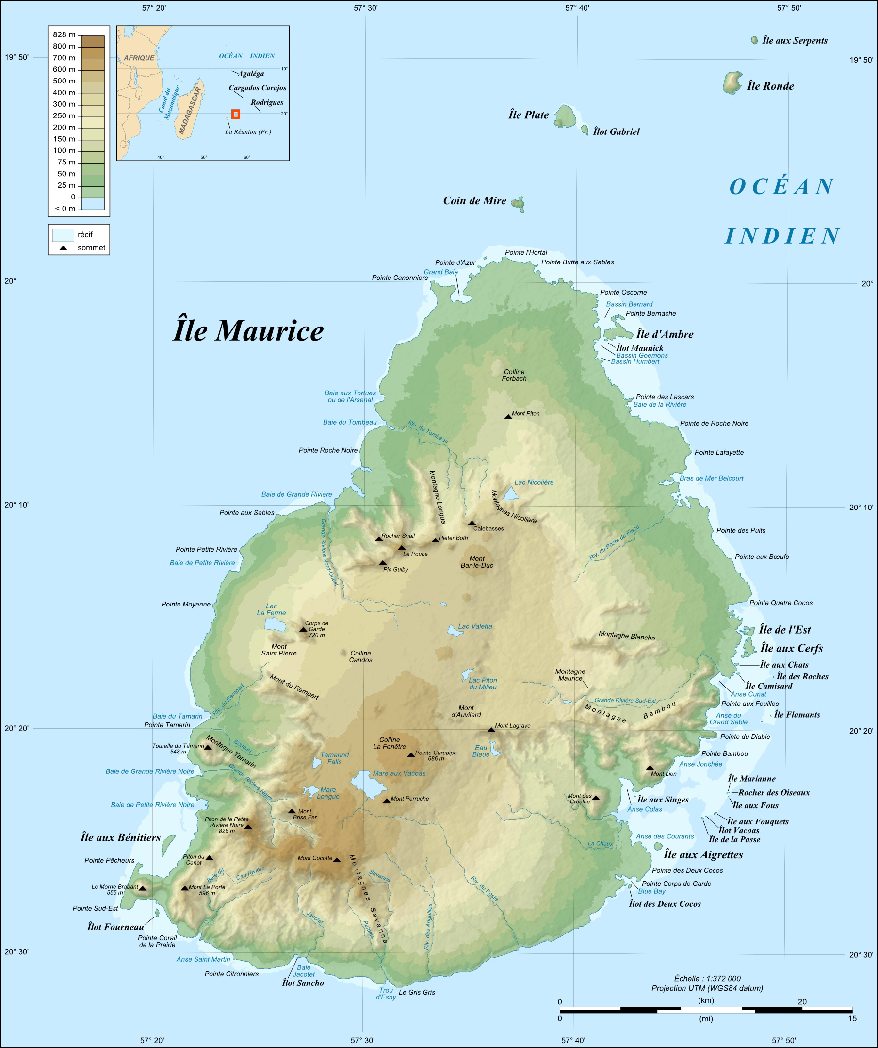 Topographic map in French of Mauritius Island.